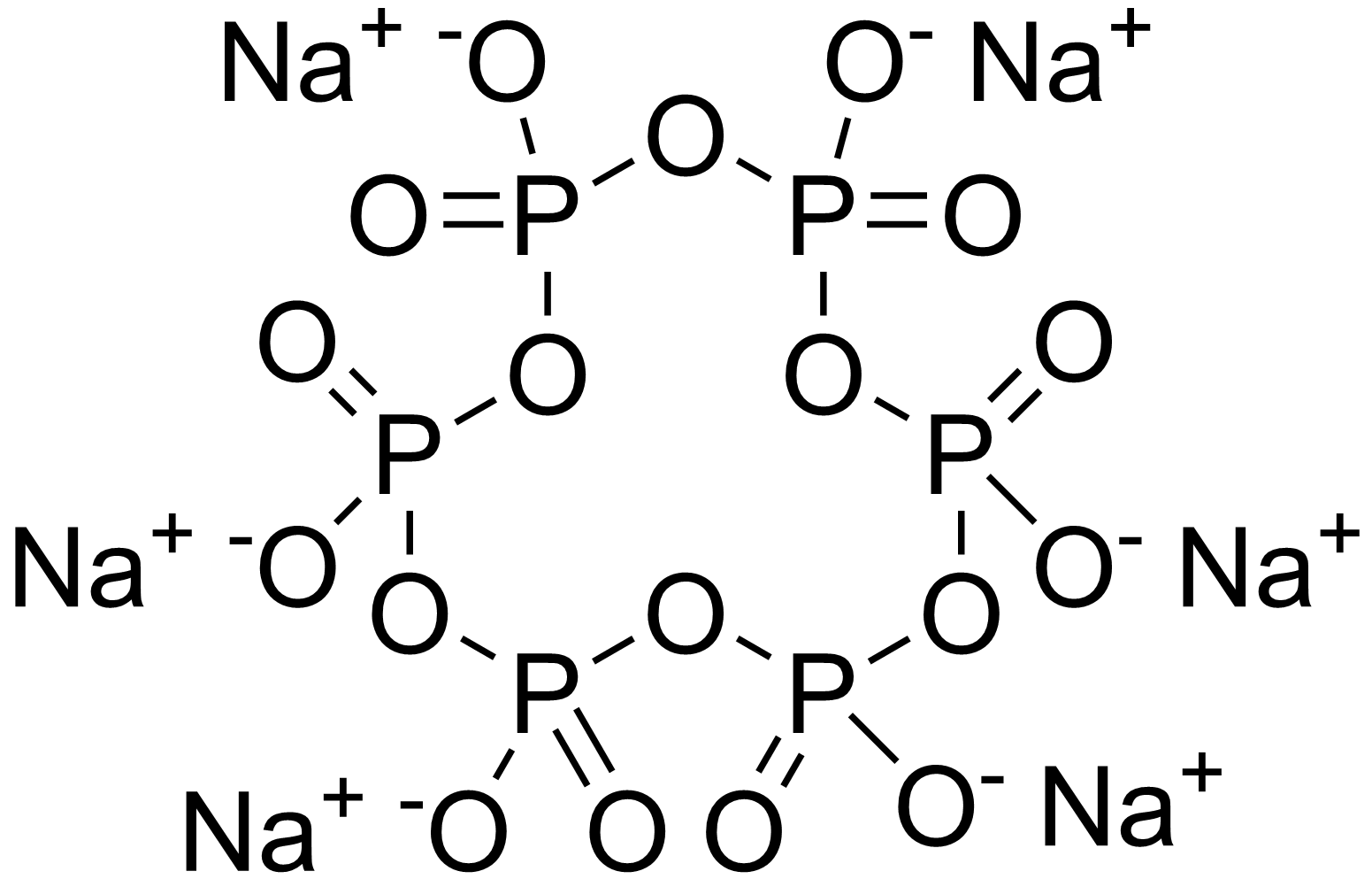 Chemical structure of sodium hexametaphosphate